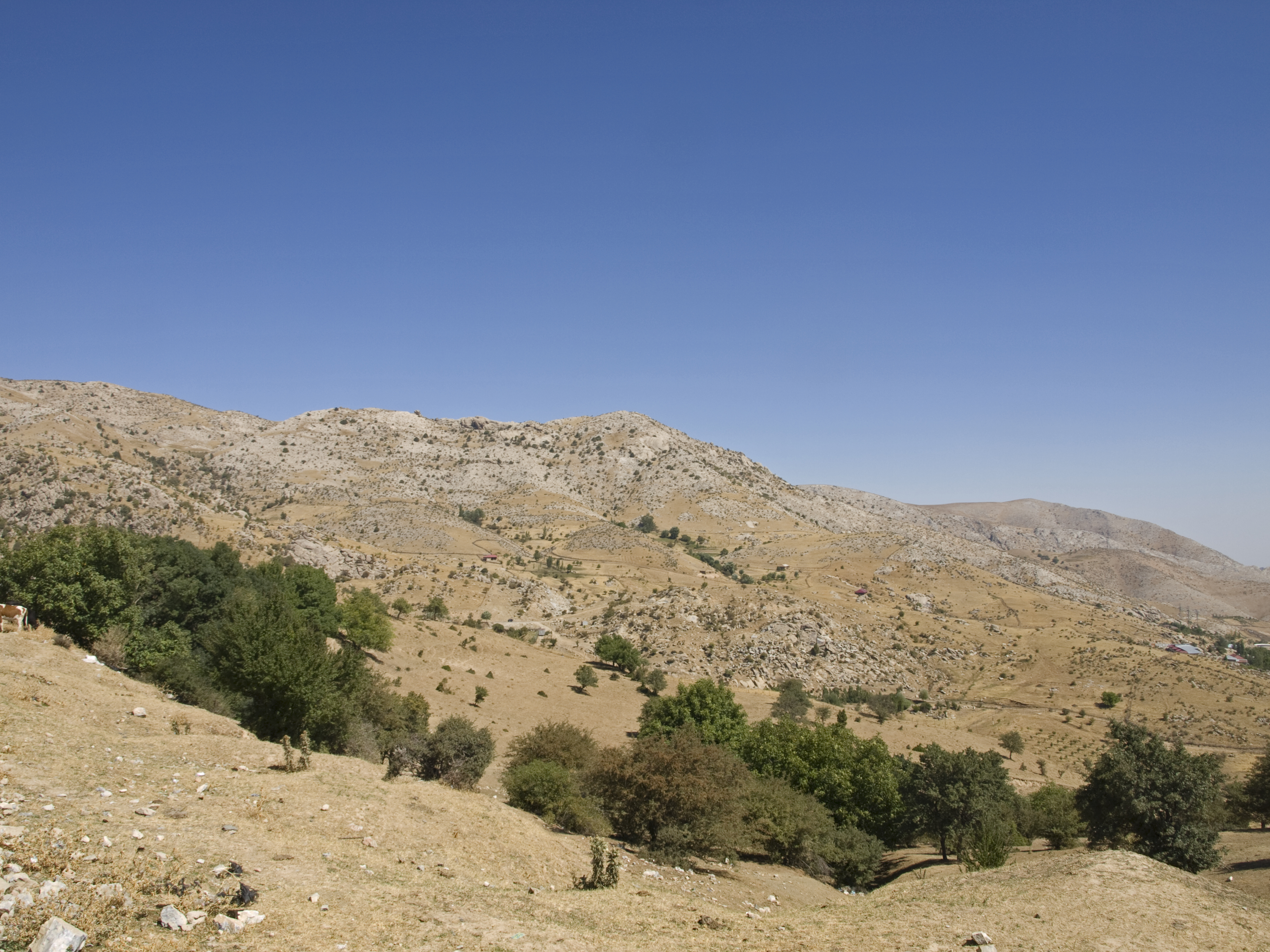 View of the mountains from the Takhta-Karacha Pass (on the road between Samarkand and Shakhrisabz) to the north